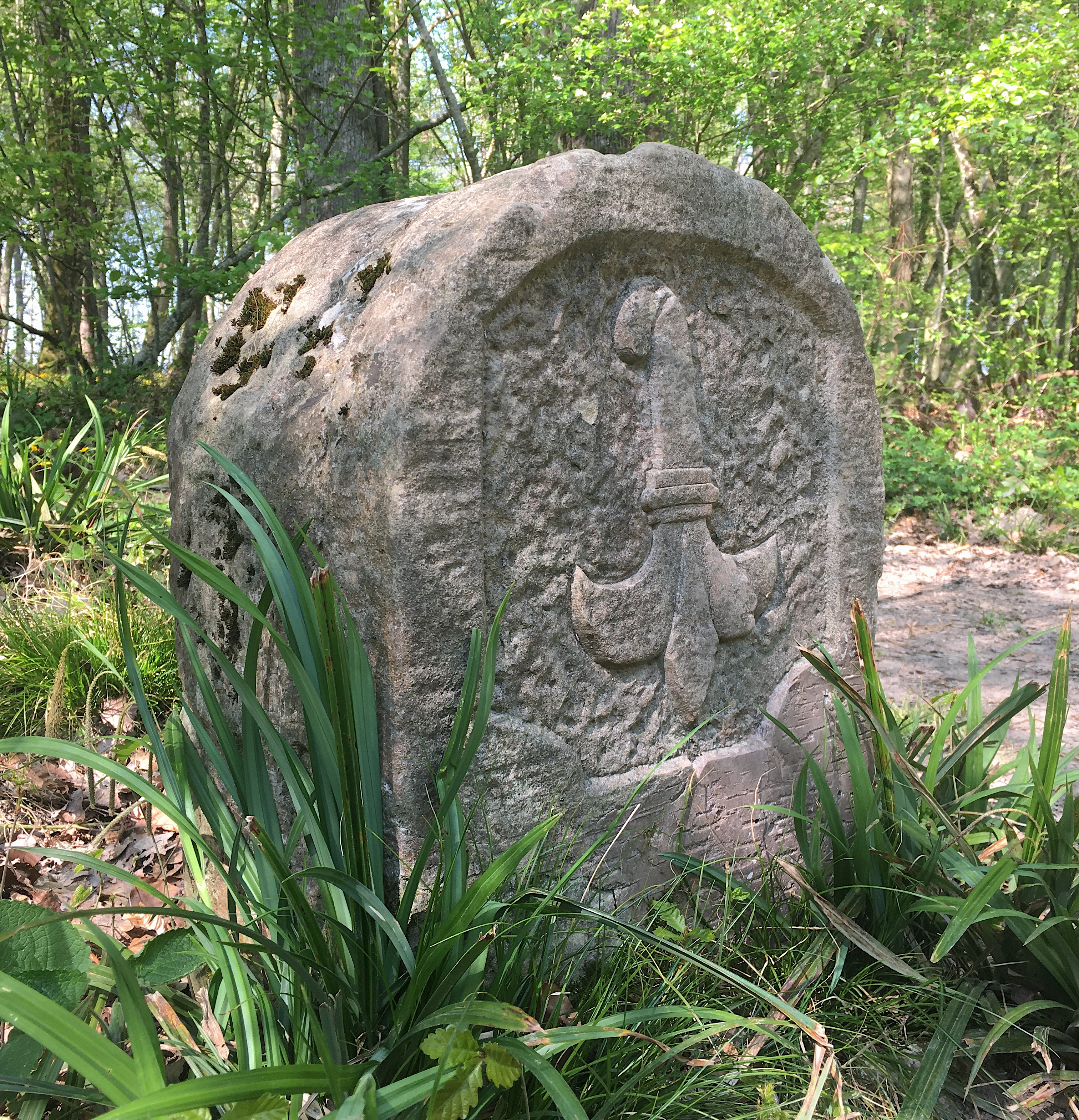 Northernmost boundary stone of Benkenspitz in Biel-Benken, Switzerland